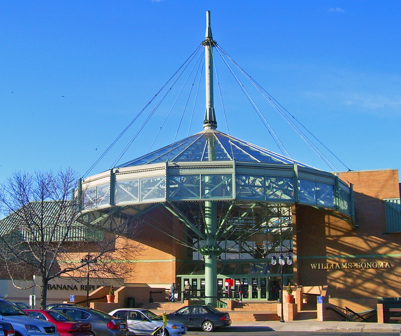 Entrance to Danbury Fair Mall in Danbury, CT, USA, designed like carousel to echo past as fairground